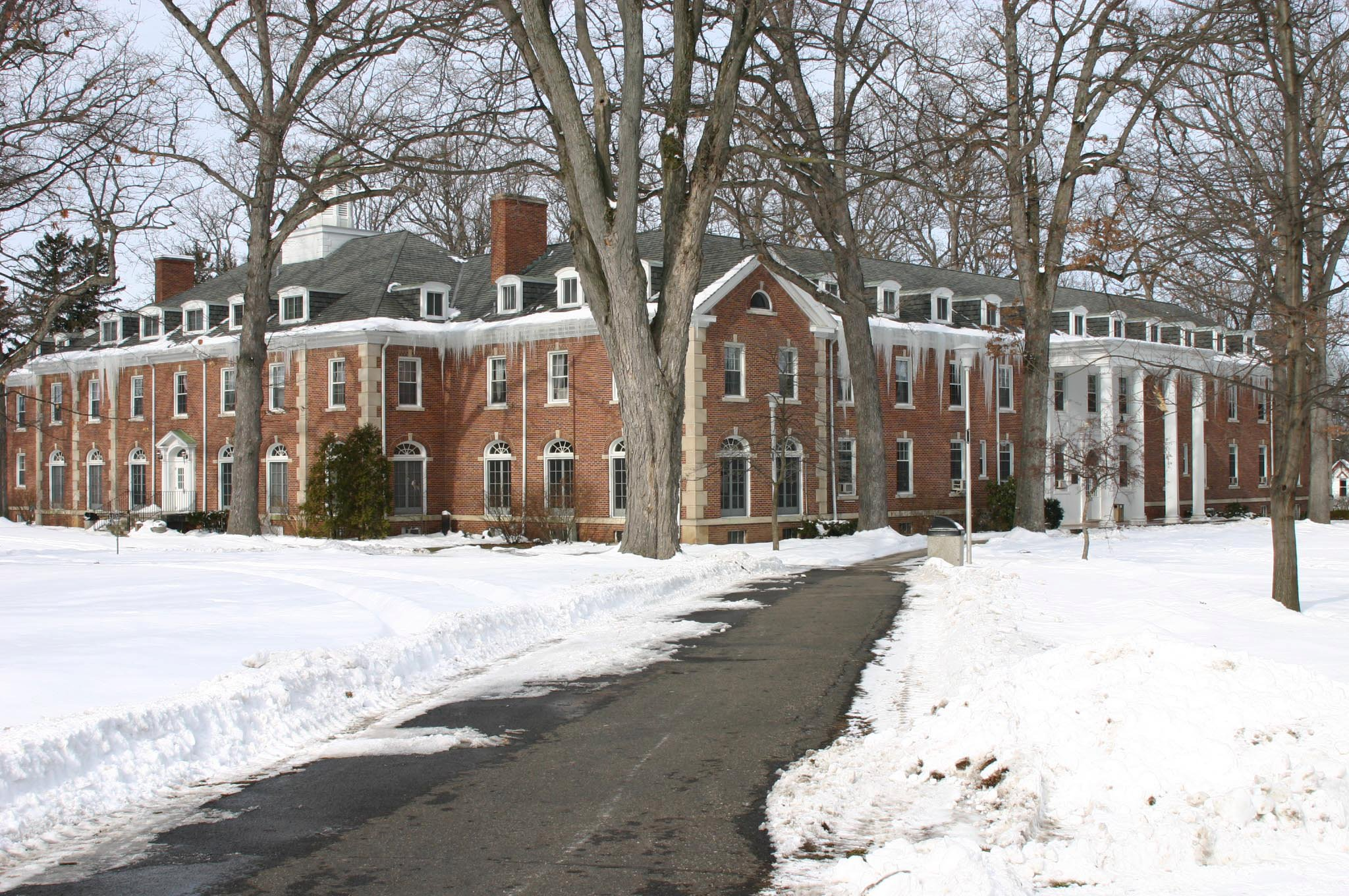 Admissions office on left, Dole Residence Hall on right.